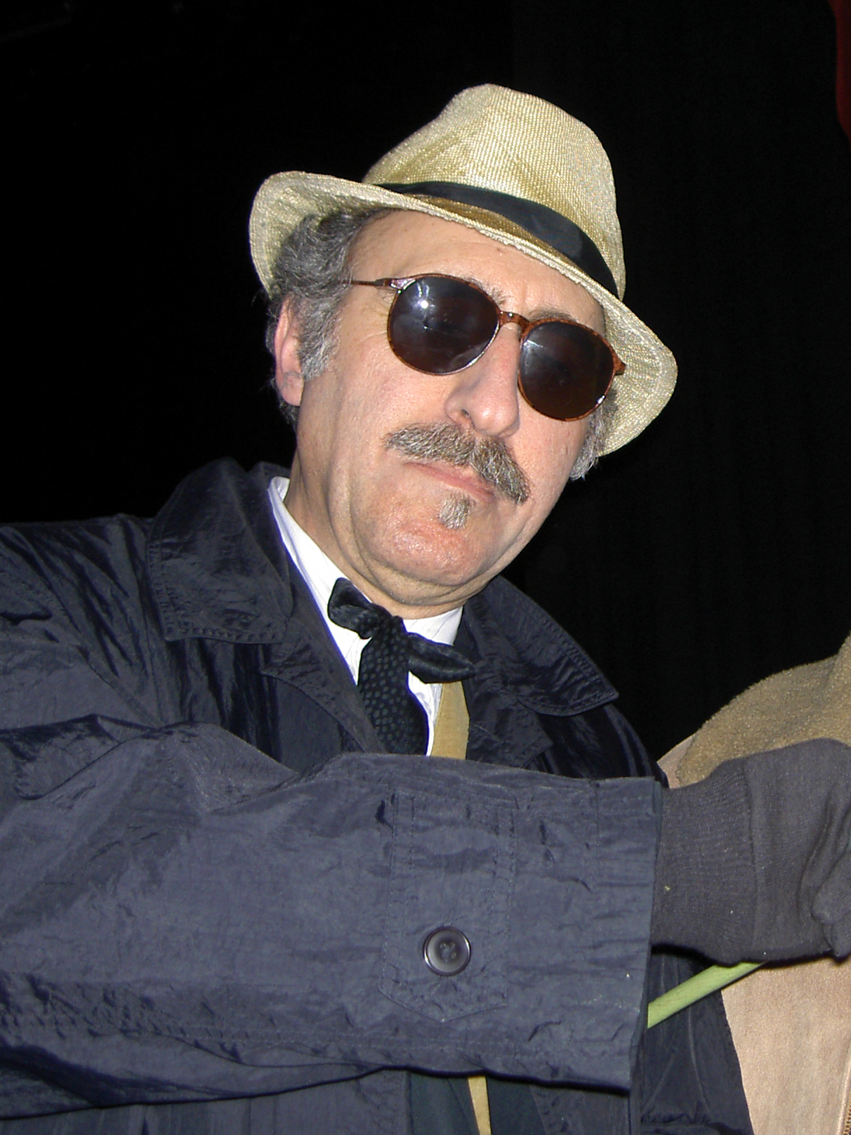 Photo taken after a show in Rahway, NJ in 2006